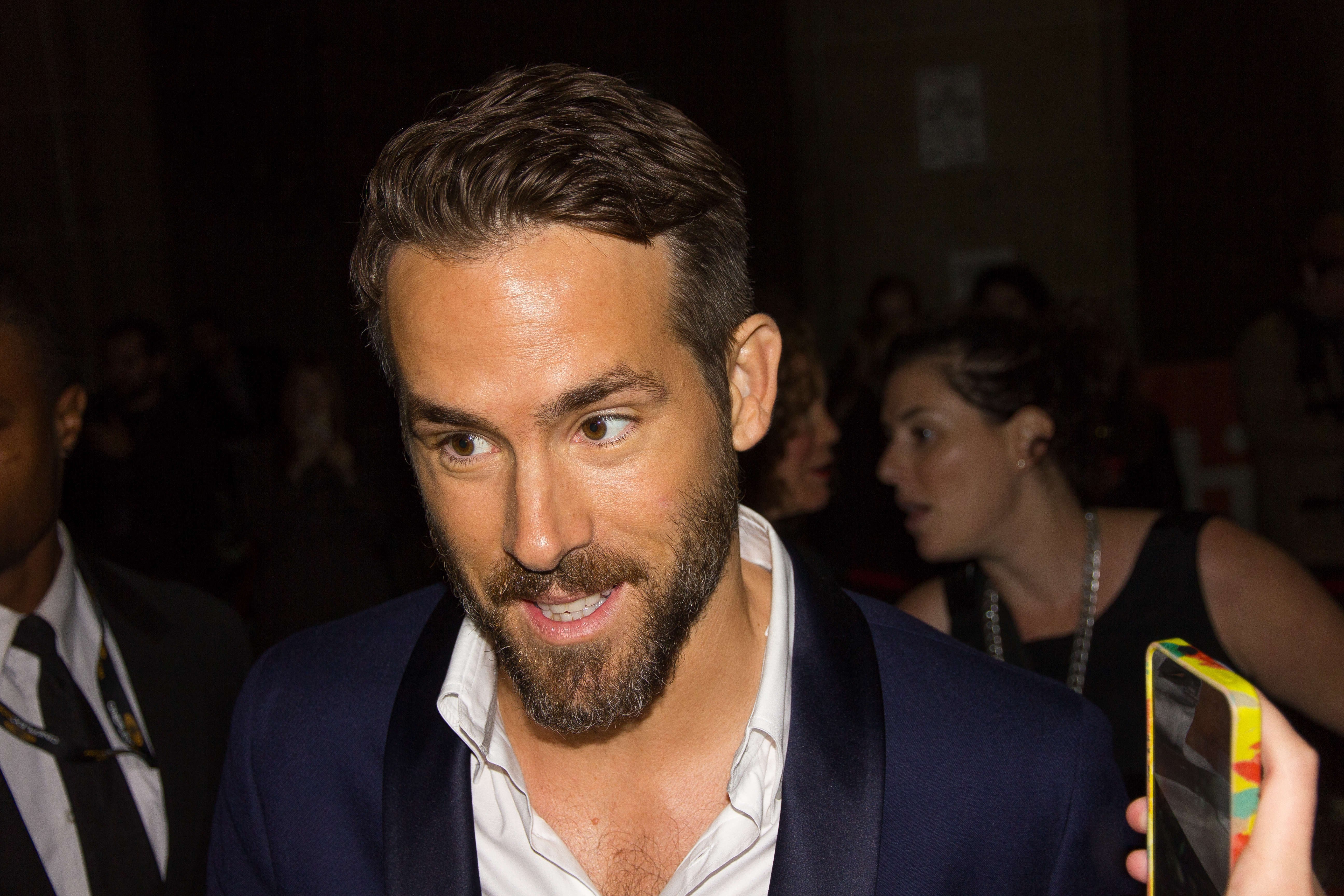 Ryan Reynolds at The Voices premiere at the 2014 Toronto International Film Festival